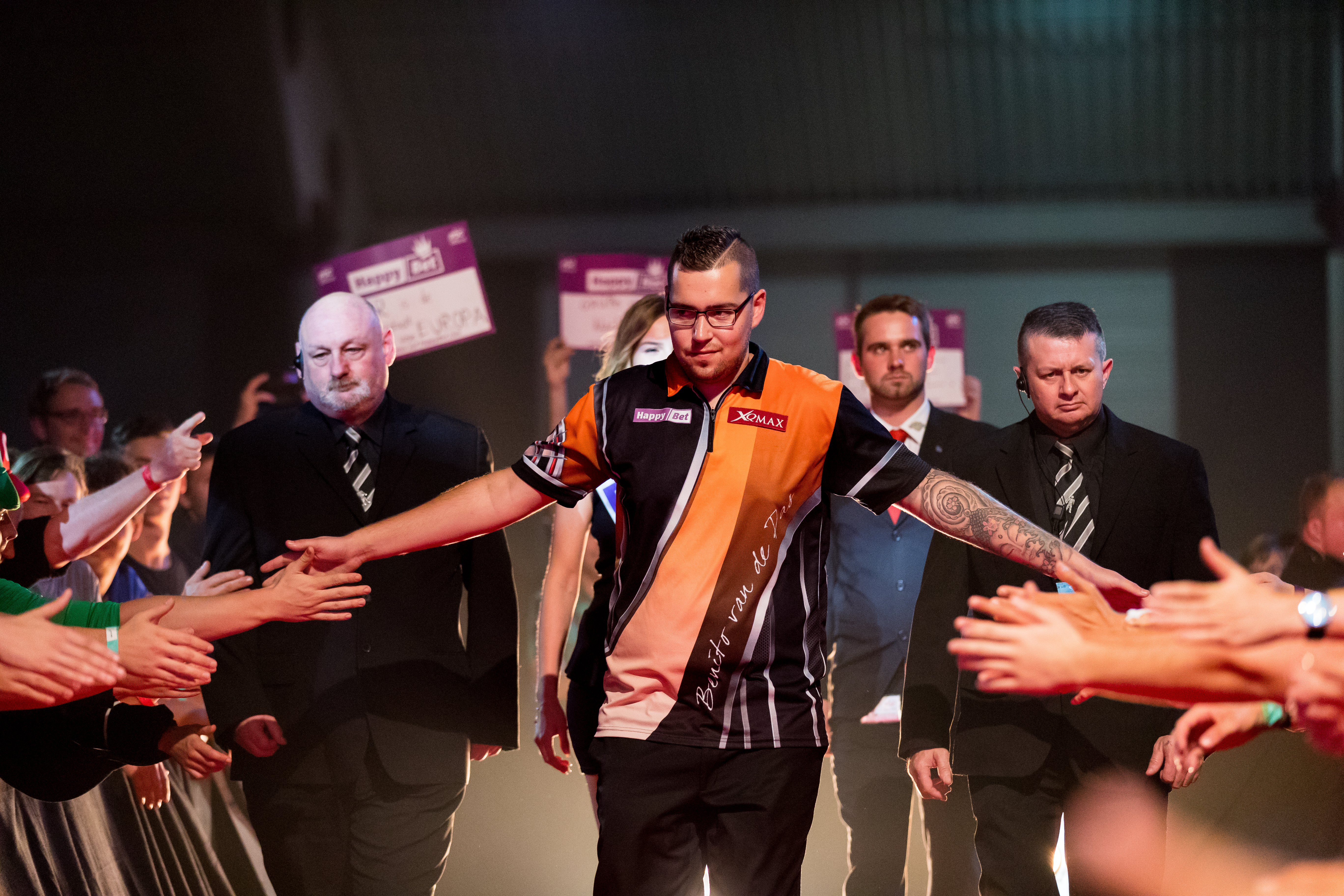 Semifinal: [14] Rob Cross (ENG) 6:3 [10] Benito van de Pas (NED) during Professional Darts Corporation (PDC), German Darts Grand Prix (GDGP) at Maimarkthalle, Mannheim, Baden-Württemberg, Germany on 2017-09-10, Photo: Sven Mandel